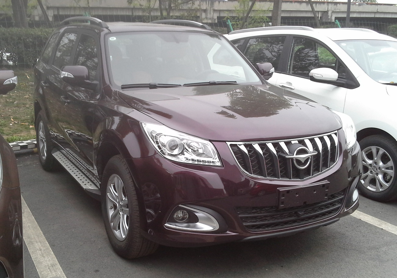 Haima S7 facelift photographed in Chengdu, Sichuan province, China.